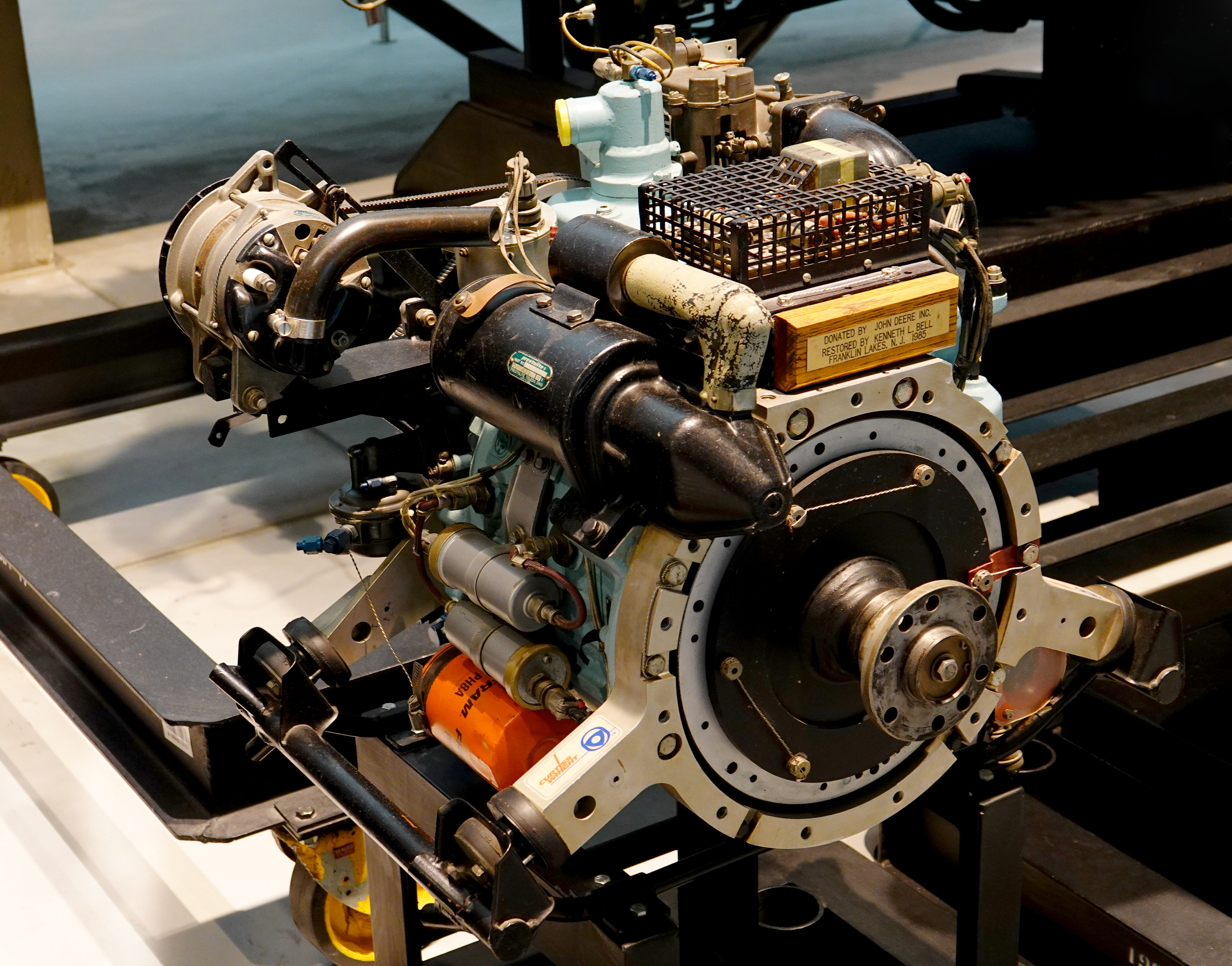 German engineer Felix Wankel conceived his rotary engine in 1924 and patented it in 1936. It featured a triangular cam connected to the drive shaft that acted like the pistons in a four-stroke cycle engine. Wankel submitted his designs to the German automobile company NSU. Wankel and NSU built and tested the first rotary in early 1957. The engine saw its greatest success in Mazda automobiles, but has also been used in motorcycles, go-karts, air-conditioner systems, and aircraft. Wright Aeronautical adapted three RC2-60 automobile engines for flight testing in 1970. The one displayed here was probably the first Wankel engine to power an airplane, a Cessna Cardinal. Another powered a Lockheed Q-Star to demonstrate feasibility, performance, and quiet flight. The third powered a Hughes TH-55 helicopter. Economic considerations (e.g. fuel burn, emissions) seem to have greatly diminished interest in the Wankel concept more recently. Picture taken at the National Air and Space Museum's Steven F. Udvar-Hazy Center in Chantilly, Virginia, USA. Specifications: Type: rotary piston, liquid cooled Power rating: 134-186 kW (180-250 hp) at 5,000 rpm Displacement: 1 L (60 cu in) Weight: 108 kg (237 lb) Manufacturer: Wright Aeronautical Div., Curtiss-Wright Corp., Wood-Ridge, NJ.